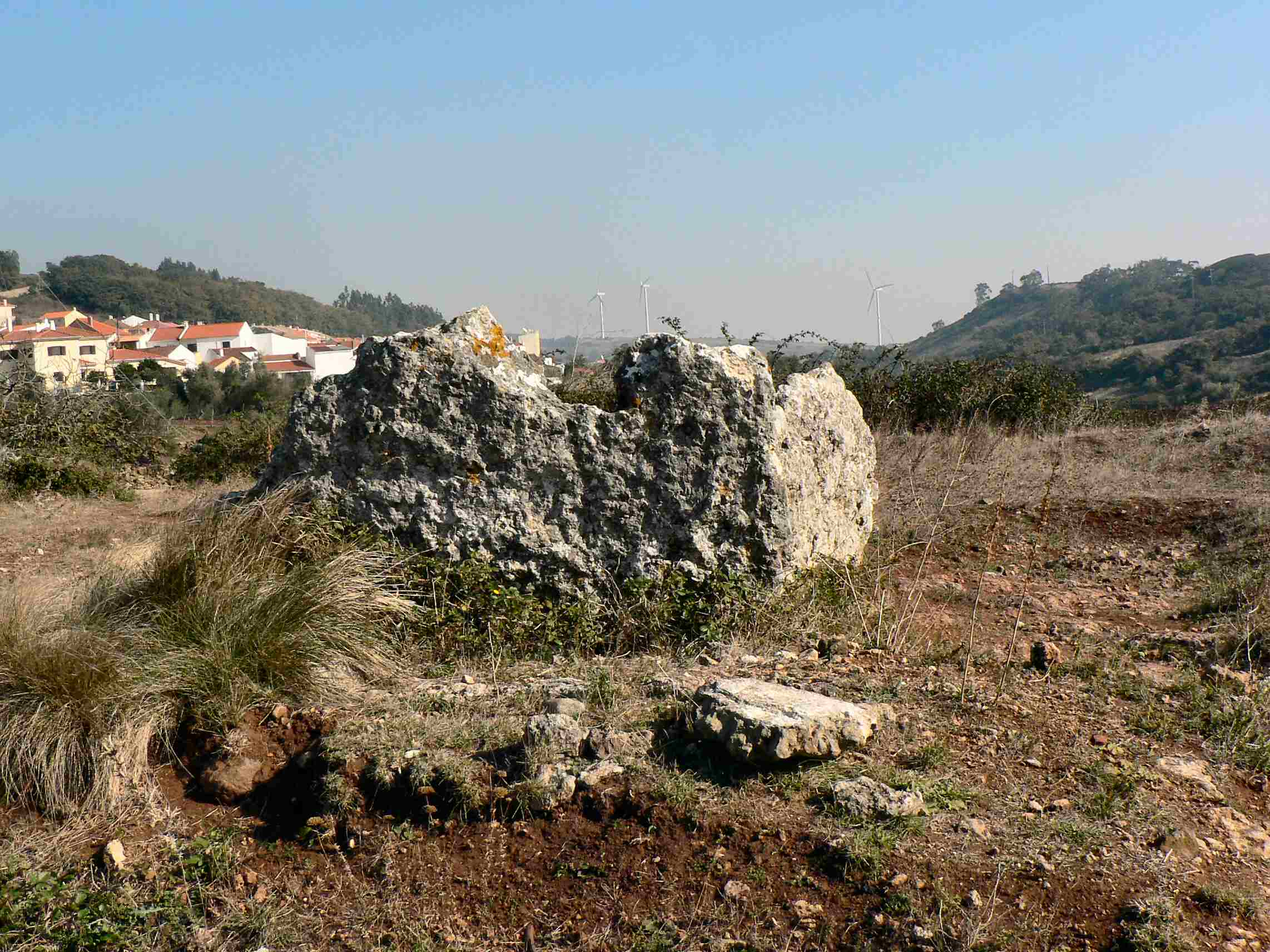 Dolmen of Casaínhos. Casaínhos, Fanhões, Loures, Portugal